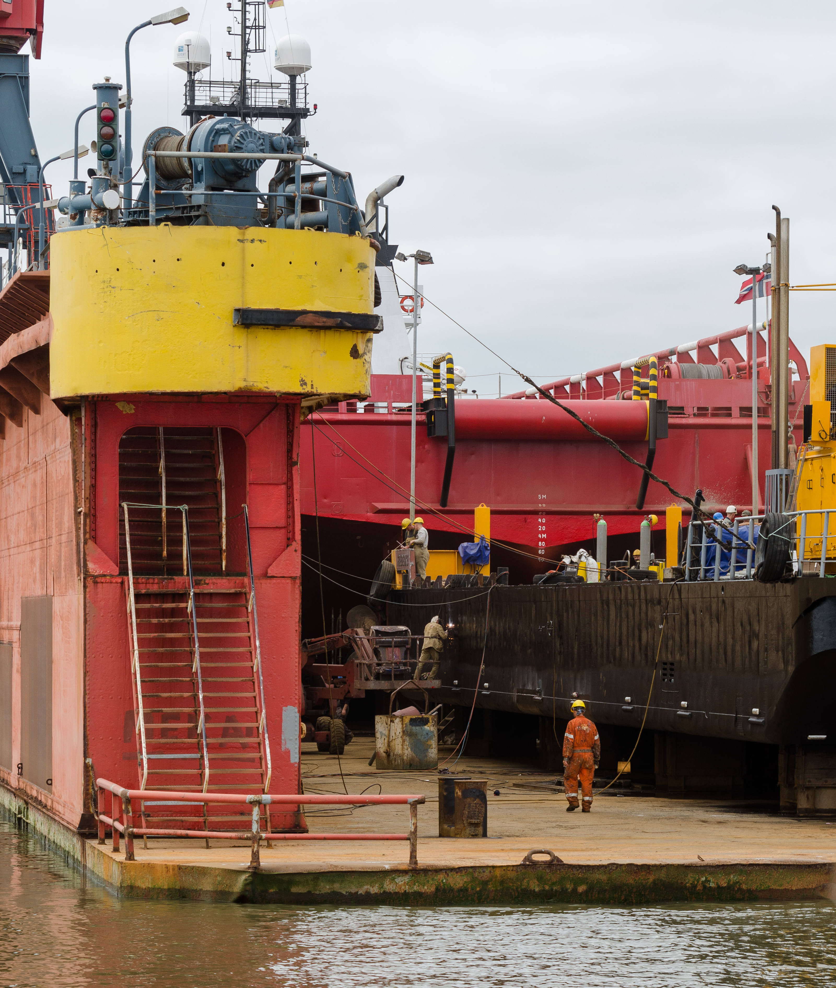 Dock of shipyard Mützefeldwerft in Cuxhaven. Inside the dock there is the vessel Friederike